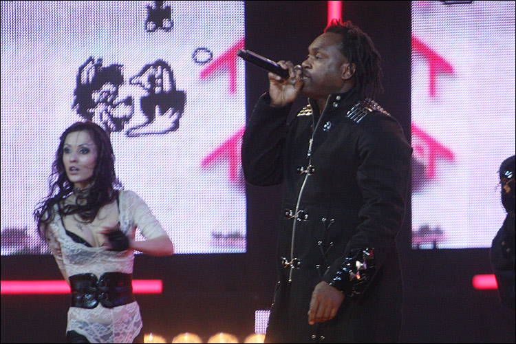 Dr. Alban in Moscow